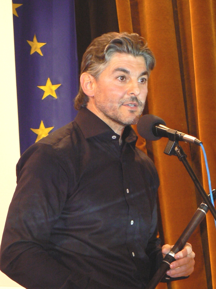 Bulgarian musician Theodosii Spasov